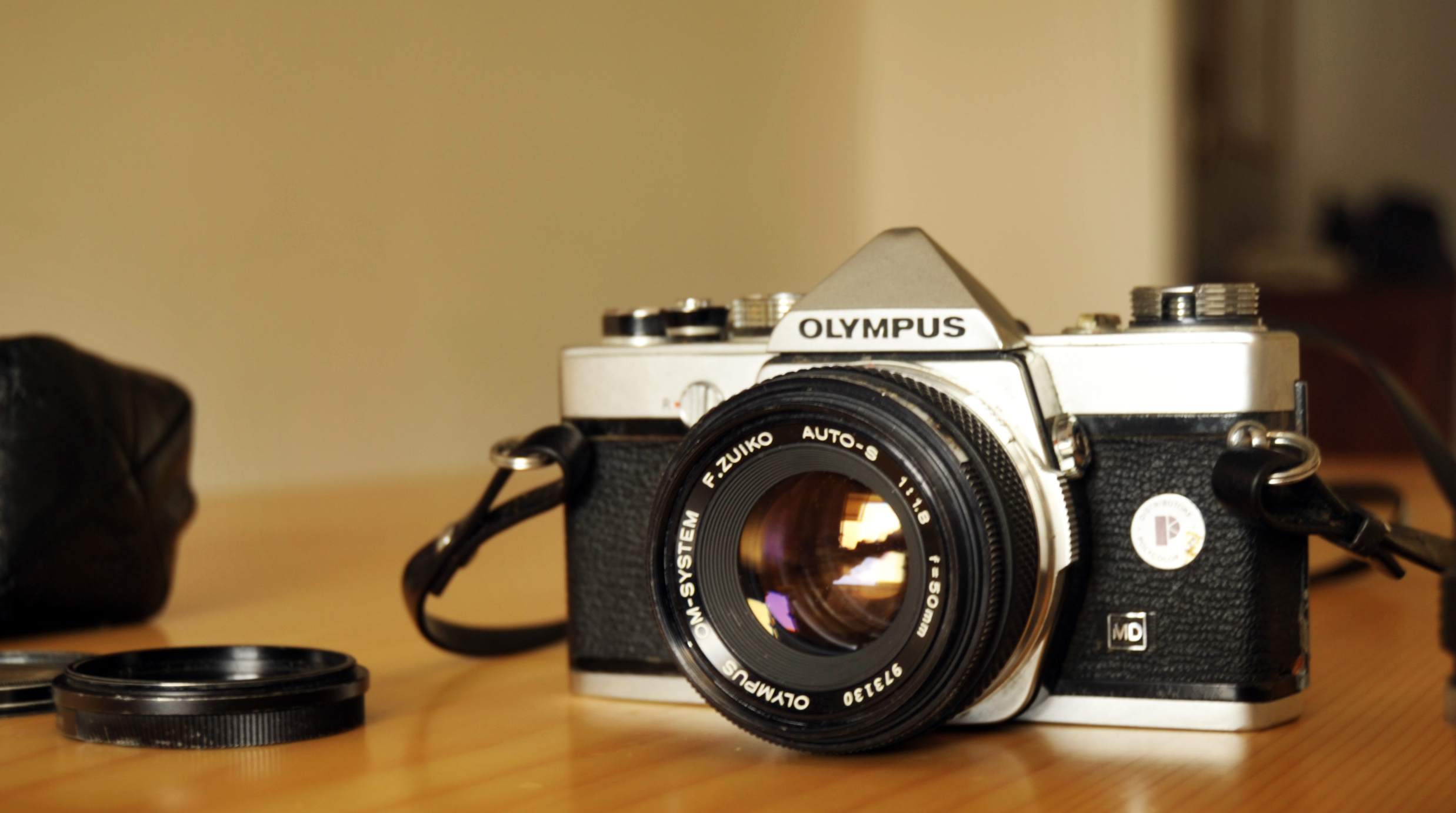 Olympus OM-1